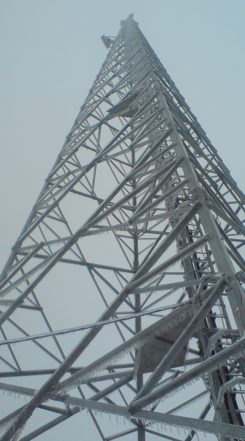 Lifecell Zatyshshia